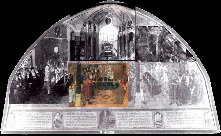 Maître de la Légende de saint Bruno - Fragment du Miracle du cadavre qui parle